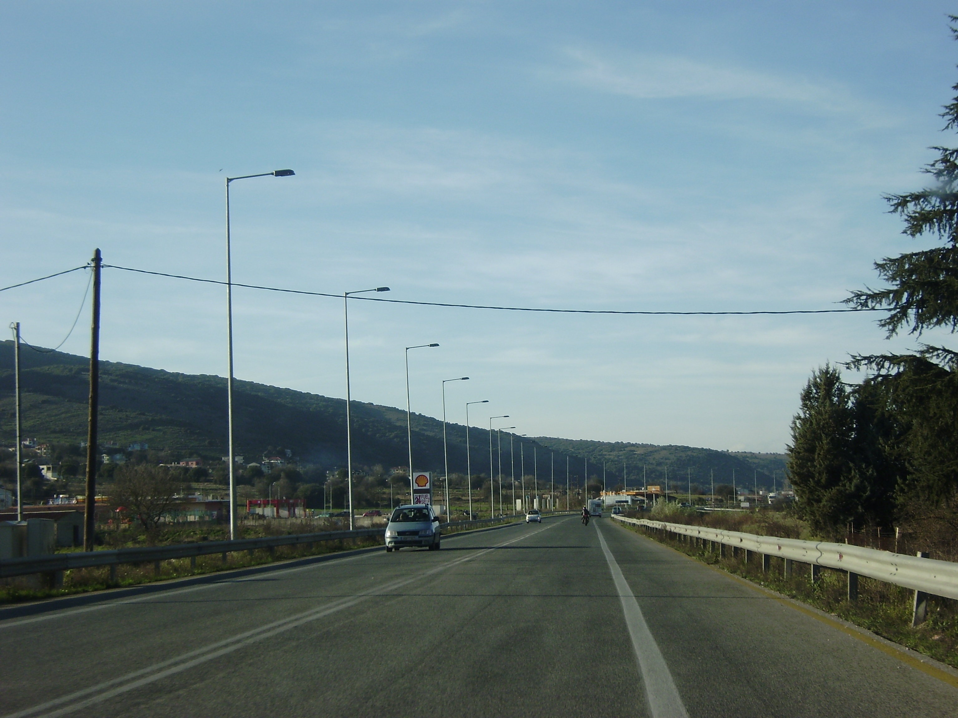 The Ring Road in Ioannina, Greece.